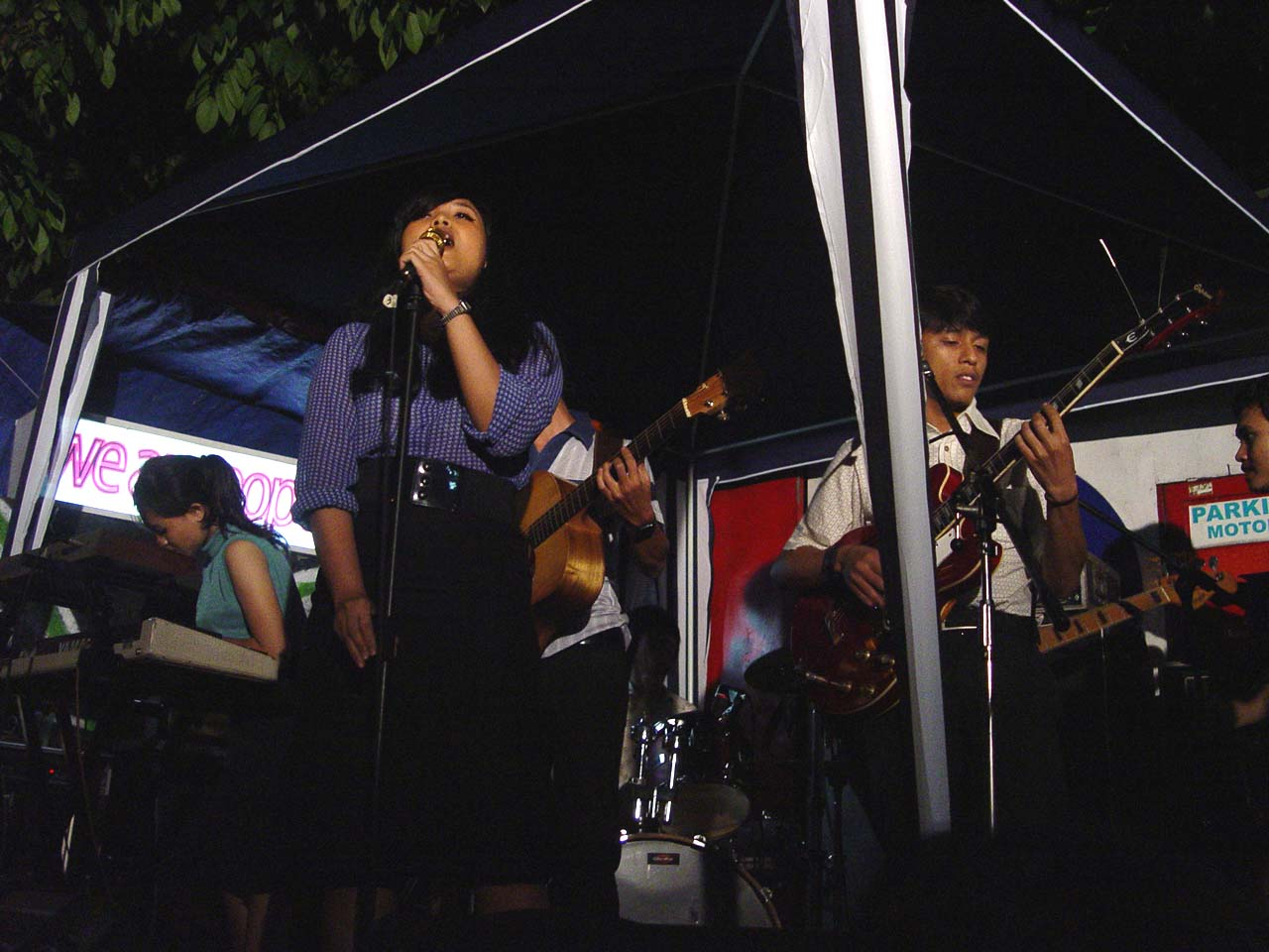 White Shoes and The Couples Company performing live at We Are Pop vol. 7, Mayestik, Jakarta, Indonesia on 28th December 2008.